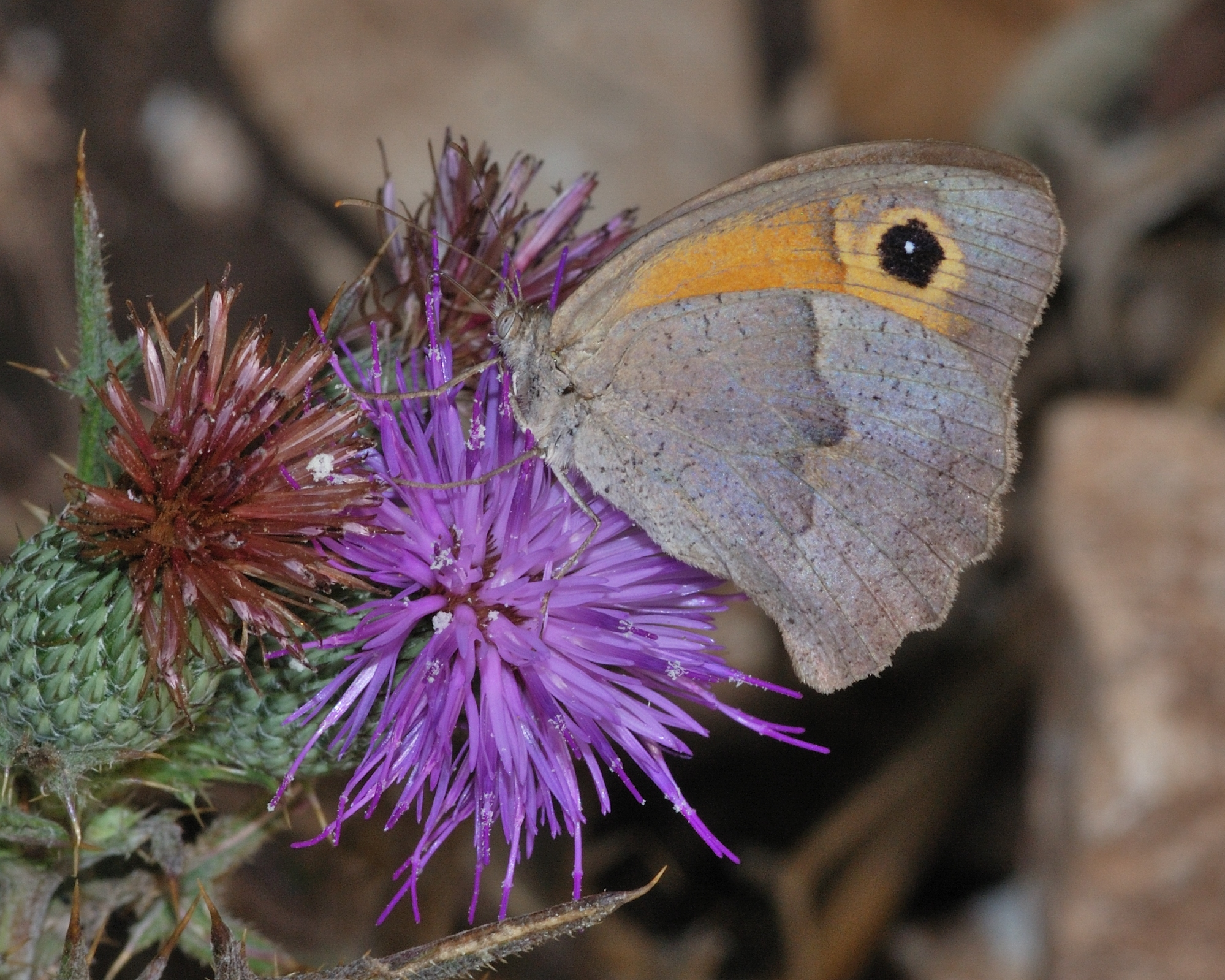 Female of Maniola telmessia telmessia (Zeller, 1847) feeding on Cirsium phyllocephalum, Mount Carmel, Israel, October 3, 2009.